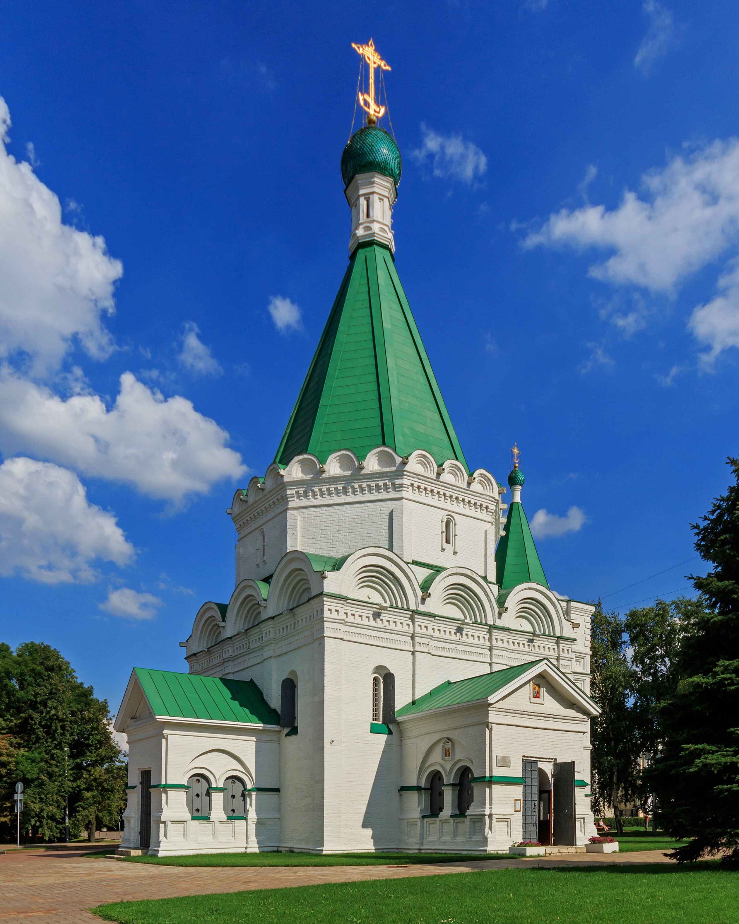 Saint Michael the Archangel Cathedral of the Kremlin in Nizhny Novgorod, Russia